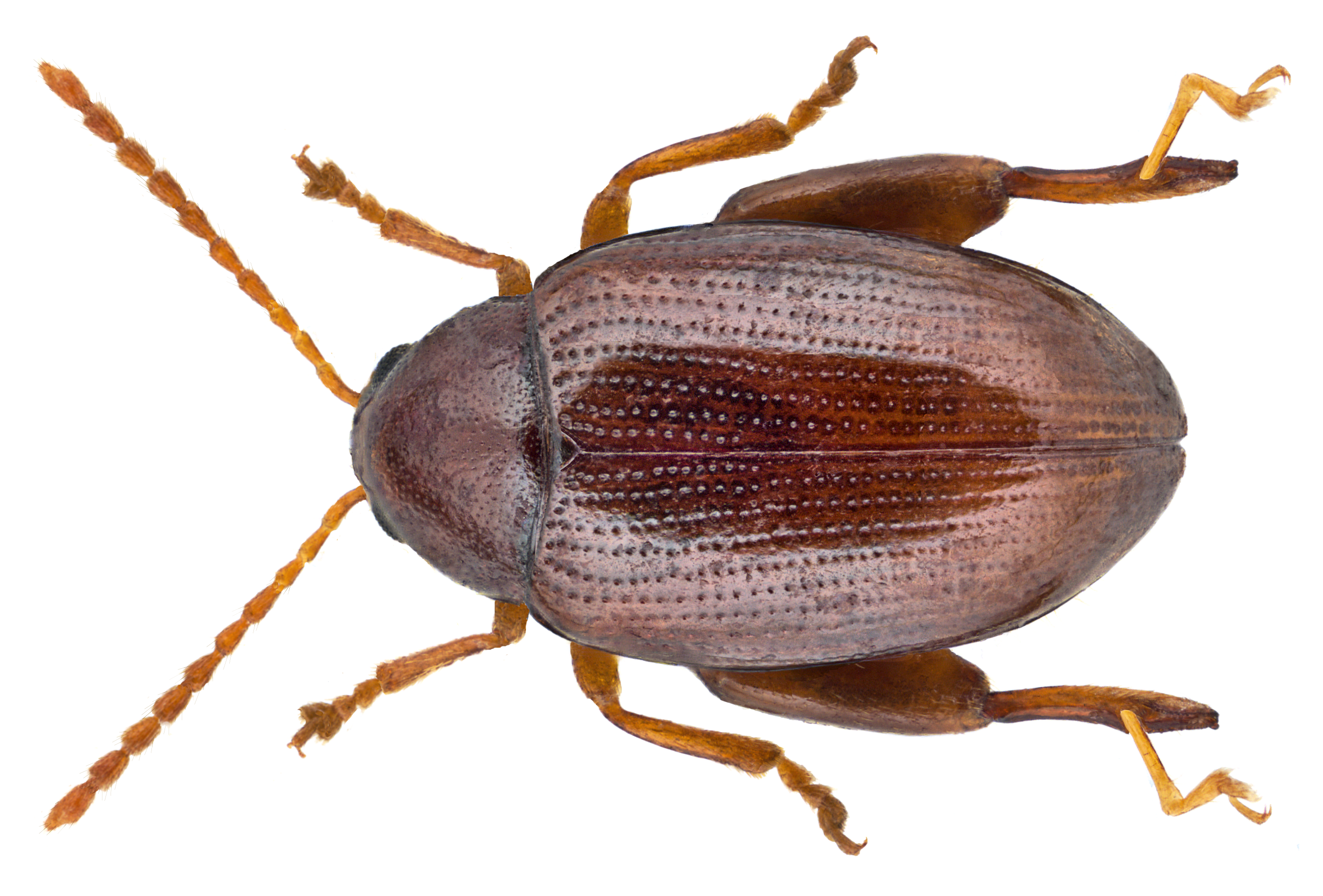 Family: Chrysomelidae Size: 2,6 mm (2,2 to 2,8 mm) Distribution: South Europe, Central Europe Location: Germany, Rheinland-Pfalz, Schwabenheim leg.det. Hees, 17.X.1973 Photo: U.Schmidt, 2014